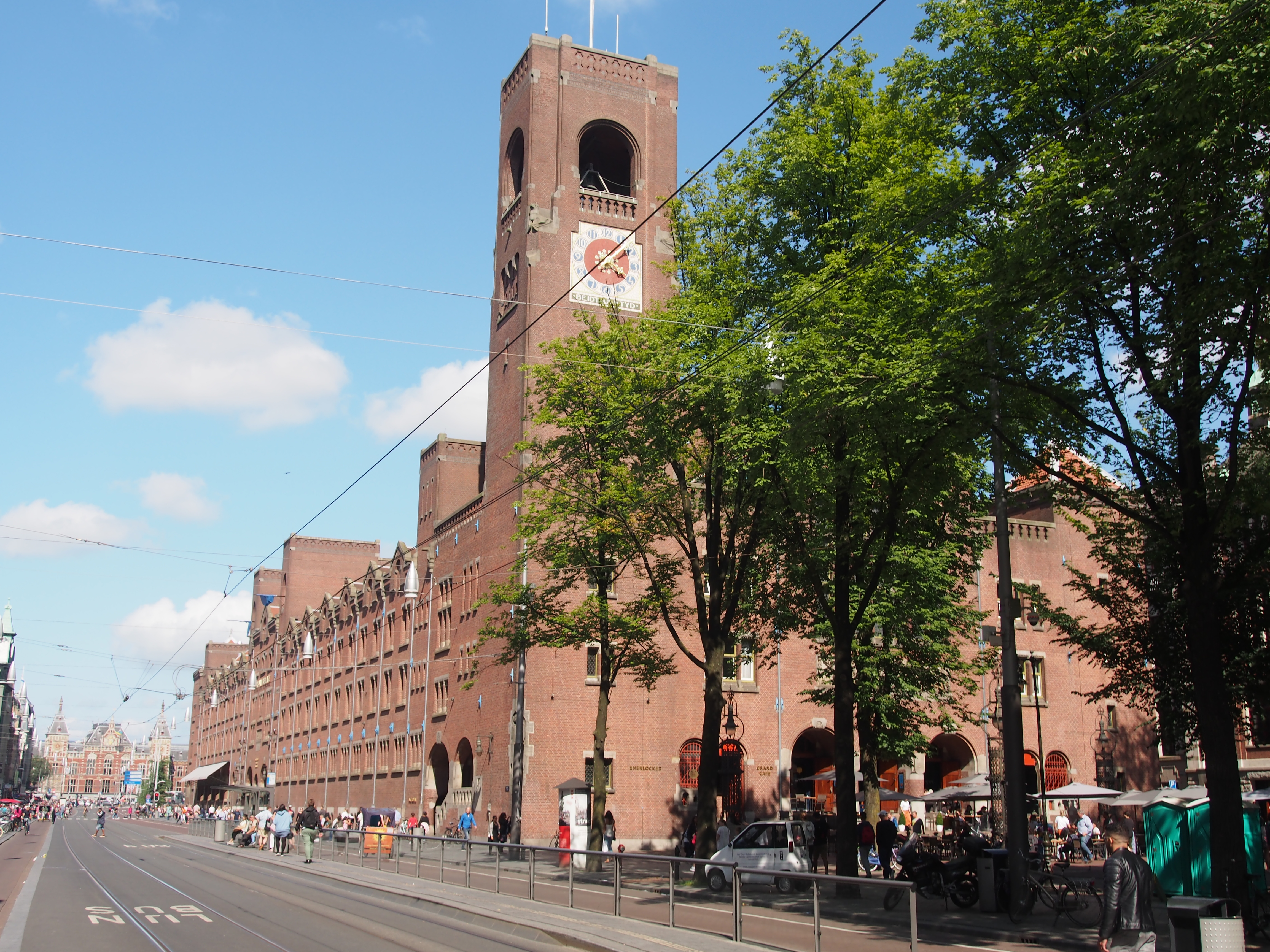 Photographed in Amsterdam.